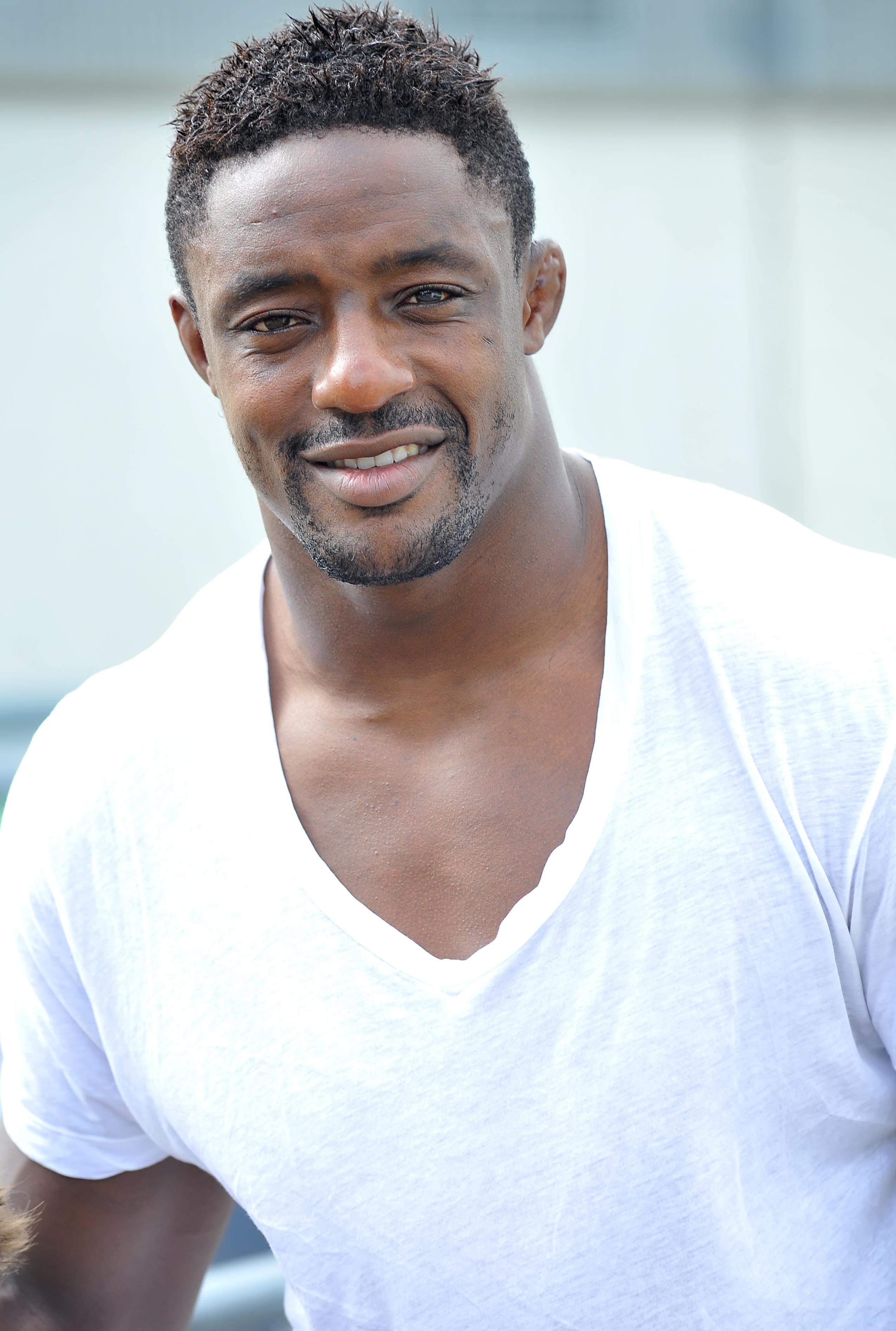 Nyanga posing with a fan